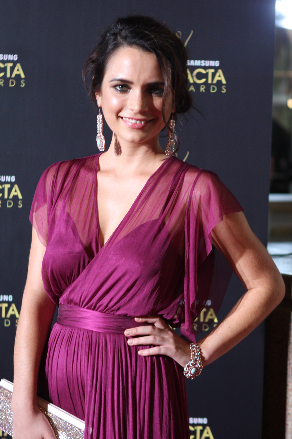 Australian actress Jessica Tovey at the AACTA award 2012, Sydney, Australia